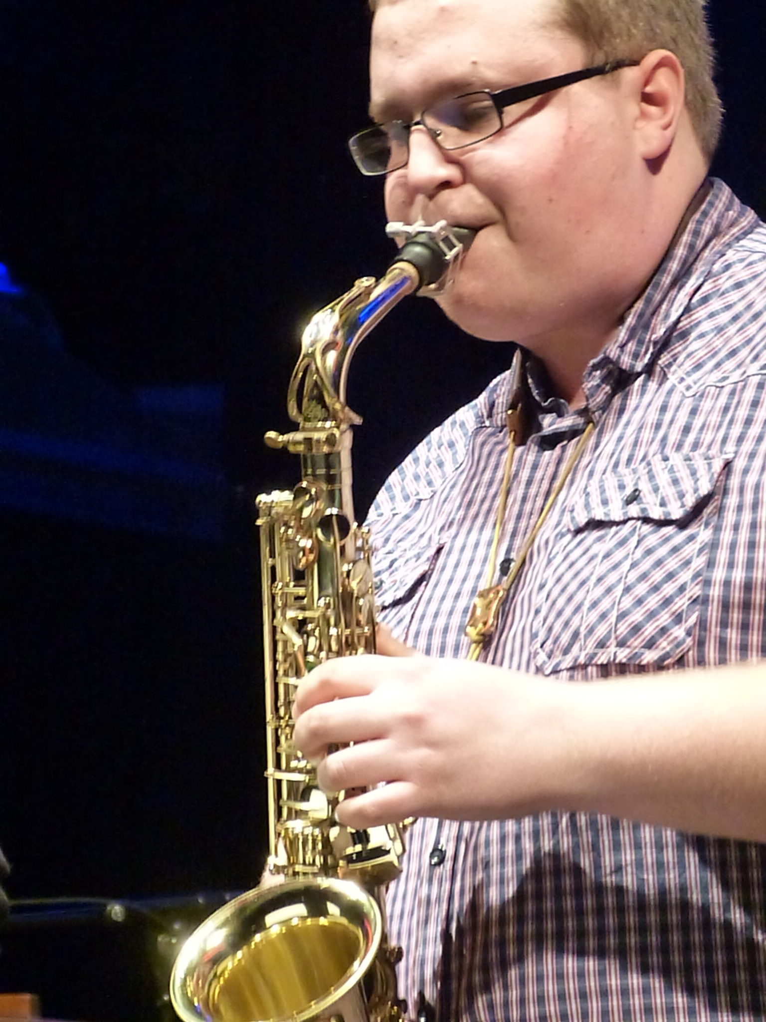 Martin Gasser in concert February 16, 2016 at ARTheater (Cologne), Germany, together with Sabeth Pérez (voc), Felix Hauptmann (p), Alex Dawo (b) and Leif Berger (dr)